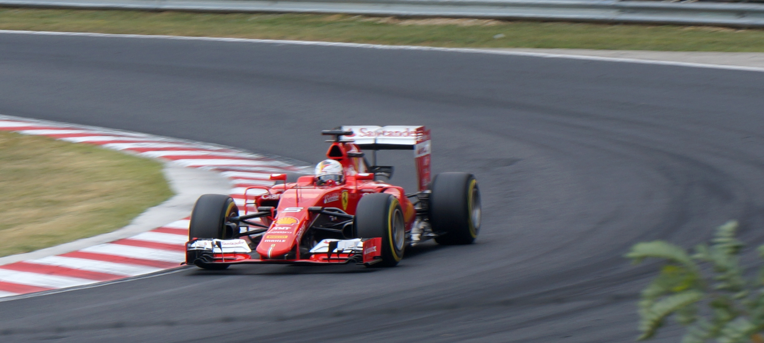 Sebastian Vettel during qualifying for the 2015 Hungarian Grand Prix